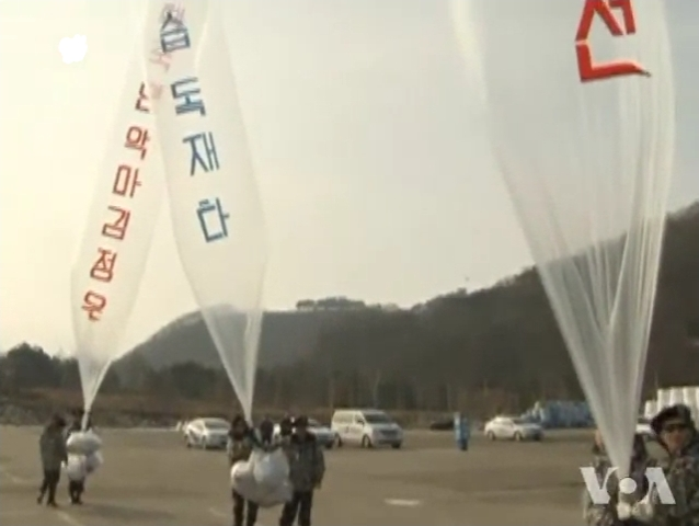 Balloon release by South Korean activists. Activists are likely members of the North Korean People's Liberation Front. VOA logo removed.